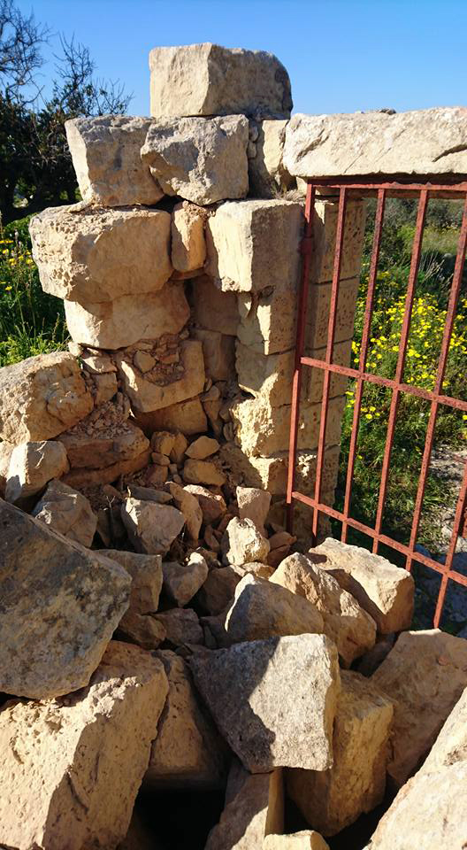 Cistern wall at Ta' Kaċċatura Roman villa collapsed.